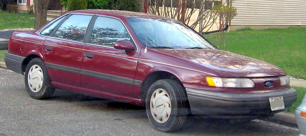 1992 Ford Taurus photographed in USA.